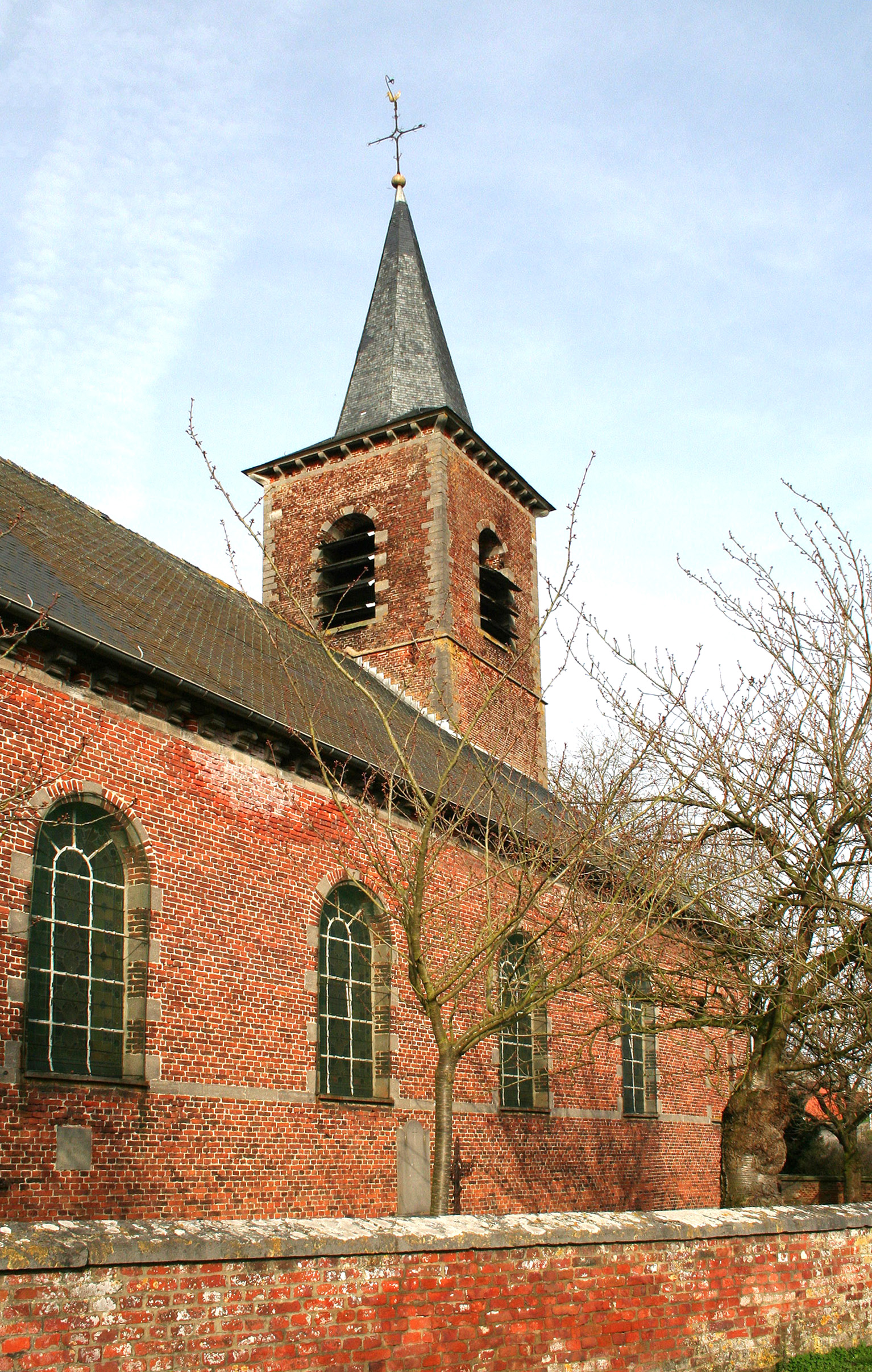 Thoricourt (Belgium), the Holy Virgin church (1772-1775).